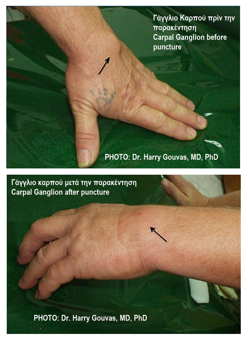 Carpal gaglion before and after puncture